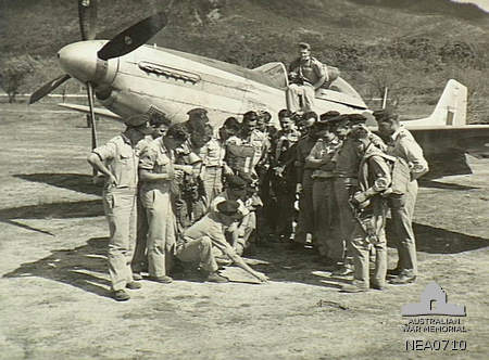 AWM caption : Townsville, Qld. 1945-07-27. Pilots of No. 84 (Mustang) Squadron RAAF receiving instructions on the strip before take-off from Ross River airfield. In front is 402530 Flight Lieutenant D. M. McQueen of Grafton, NSW. Behind them is a North American P-51K-10-NT Mustang aircraft.